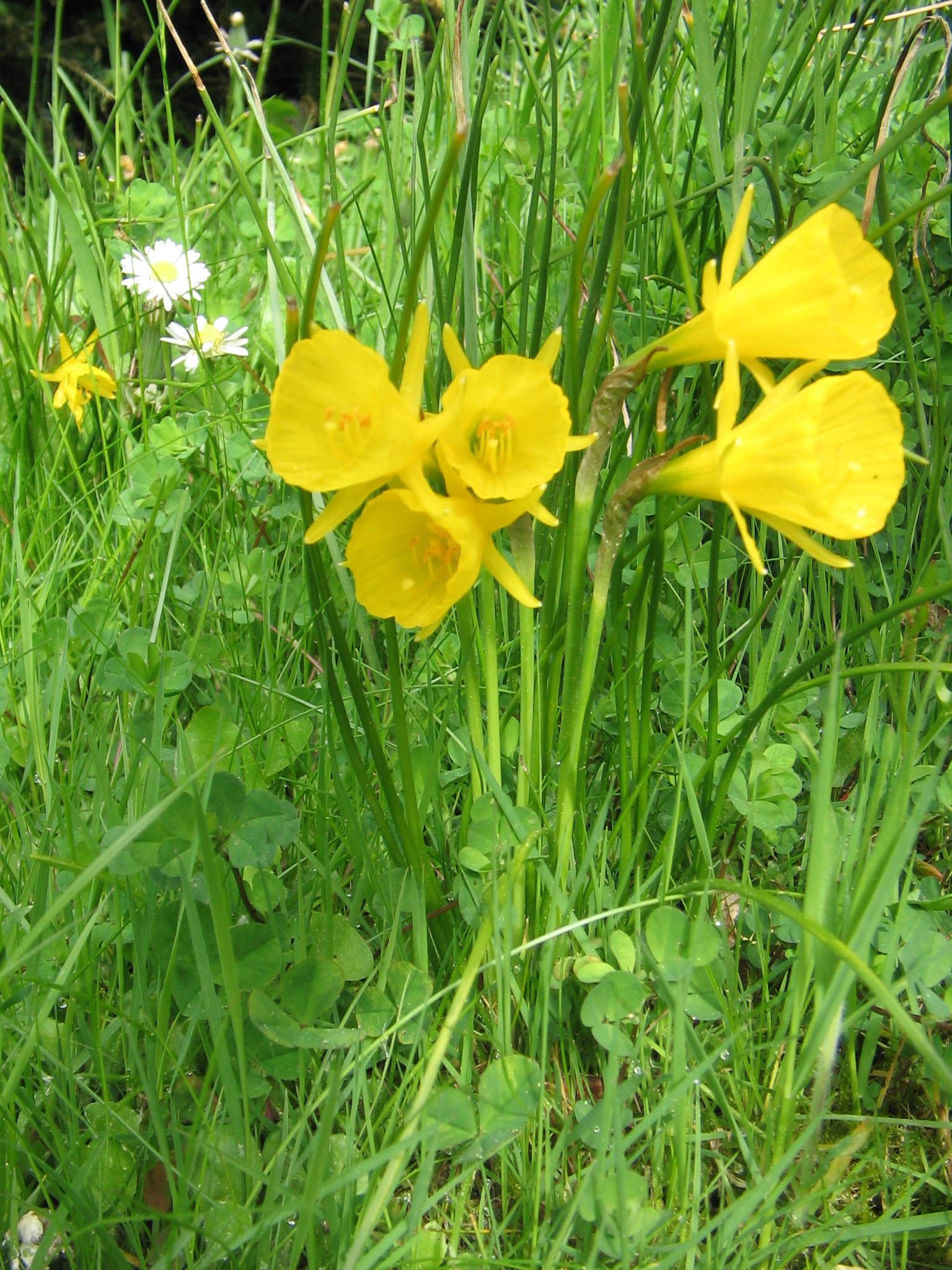 Narcissus bulbocodium 'Golden Bells' in my garden